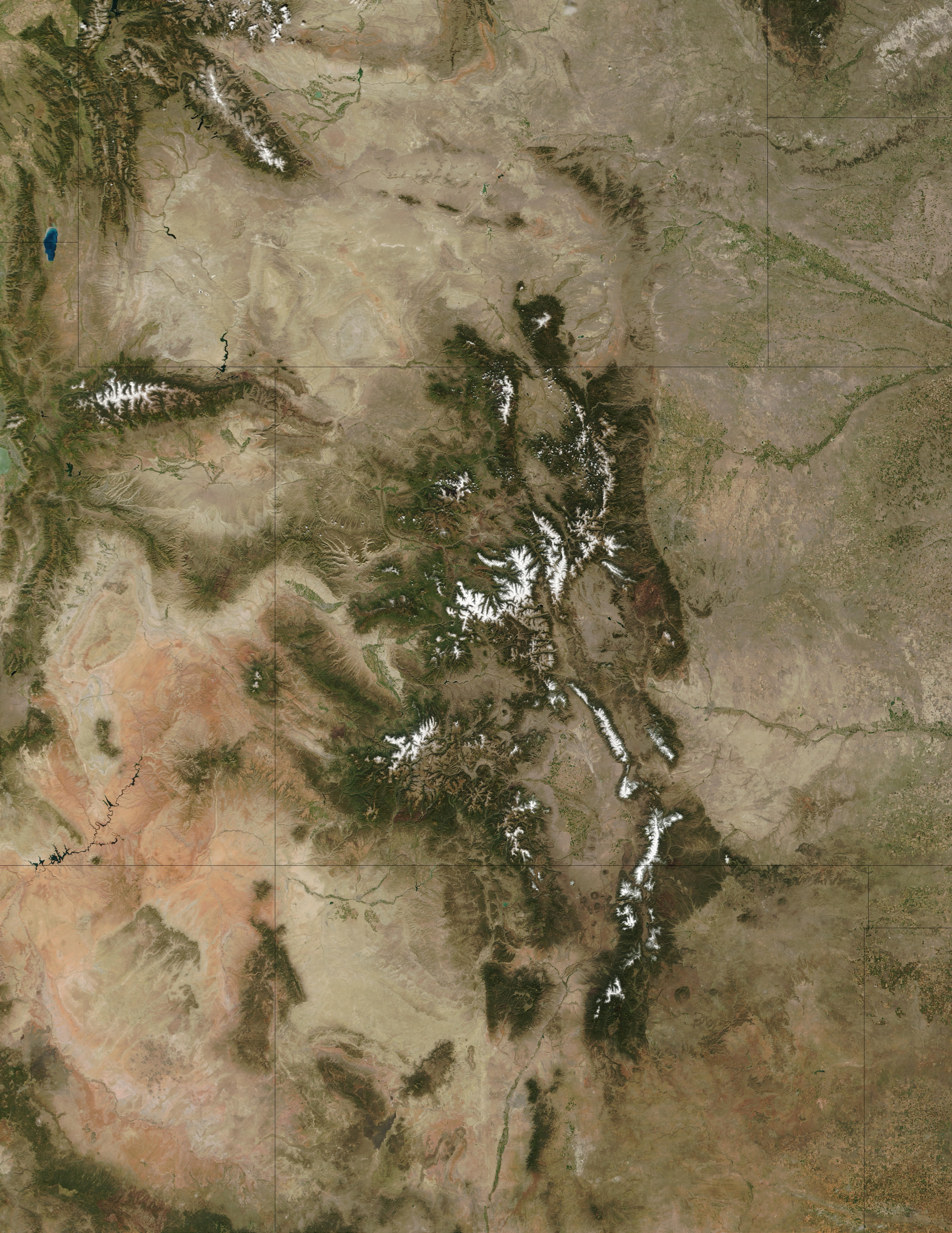 Snowfall returned to the mountain ranges of western and central Colorado on September 18—the first significant accumulation of the 2002-03 snow season. Ski resorts in the region report several inches of accumulation. Most of Colorado experienced drought conditions throughout the summer, so this precipitation was badly needed. In this true-color scene, acquired on 2002-09-20 by the Terra MODIS sensor, the bright snow-capped peaks contrast sharply with the darker greens and browns of the surrounding landscape. This contrast makes it easier to spot specific mountain ranges. Running north-south near the top of this scene are the Medicine Bow Mountains, roughly in the center of the state and extending northward into Wyoming. To their west, the Rocky Mountain ranges have names like the Elkhead Mountains and the Steamboat Range. The Medicine Bow terminate in a long line of north-south tending ranges called Colorado’s Front Range, at the foothills of which lie the state’s biggest cities: Fort Collins, Denver, and Colorado Springs. Farther to the south, near the center of the state, are the Gore and Sawatch Mountain Ranges (left center). In southern Colorado, both the San Juan Mountains (west) and the Sangre de Cristo Range (east) stretch over the state line into New Mexico. Between the two flows the northern reaches of the Rio Grande. Due east of image center, a reddish-brown patch marks the burn scar left by the Hayman Fire. Other land marks are visible in this scene. Wyoming’s and Utah’s Flaming Gorge Reservoir can be seen in the upper lefthand corner of this image. Bear Lake, which straddles the boundary between Idaho and Utah, is easily distinguished in the full-resolution image (click the image above). The conspicuous green dots throughout southern central Colorado and parts of New Mexico are central pivot irrigation crop fields.